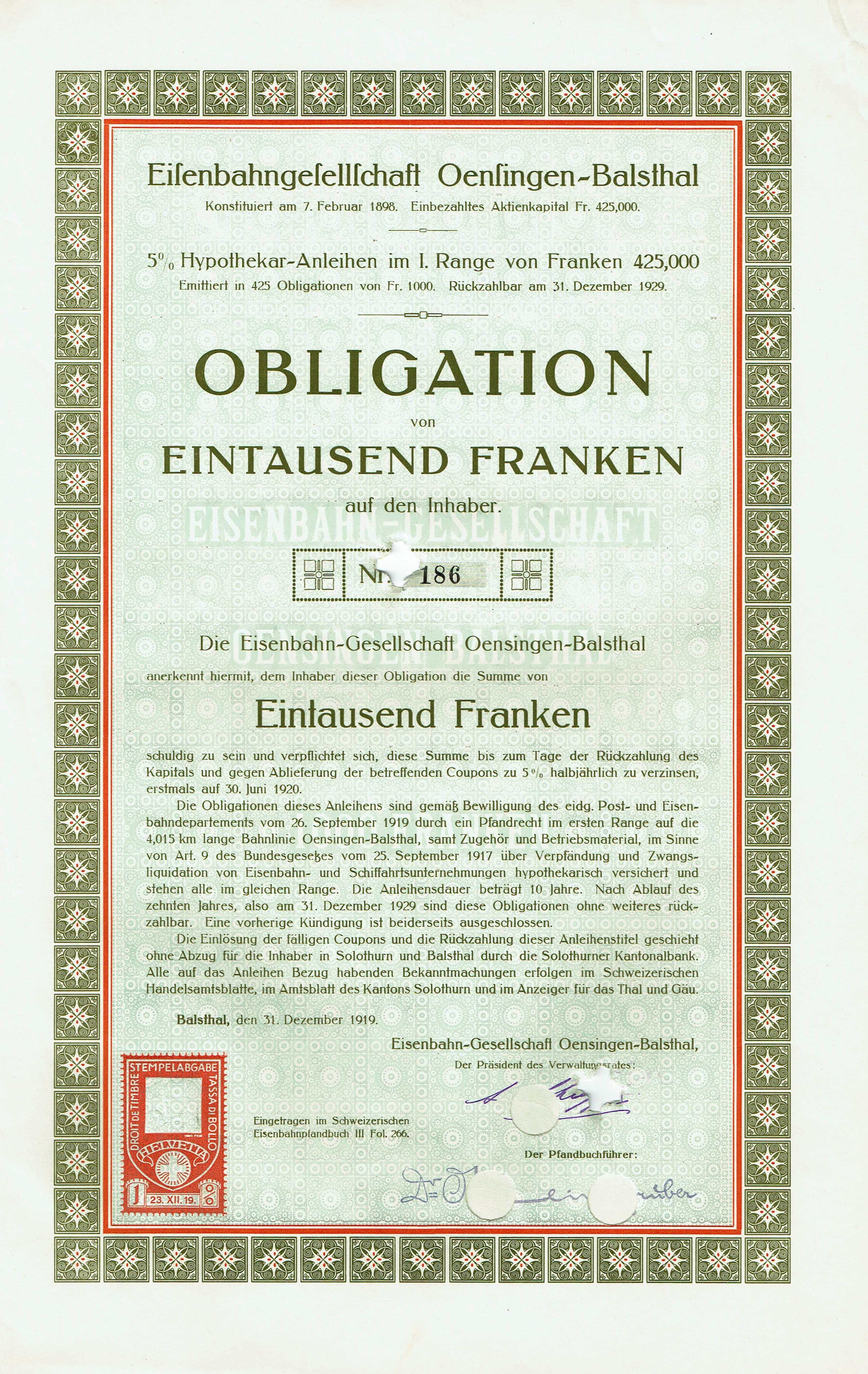 Bond of the Eisenbahn-Gesellschaft Oensingen-Balsthal, issued 31. December 1919